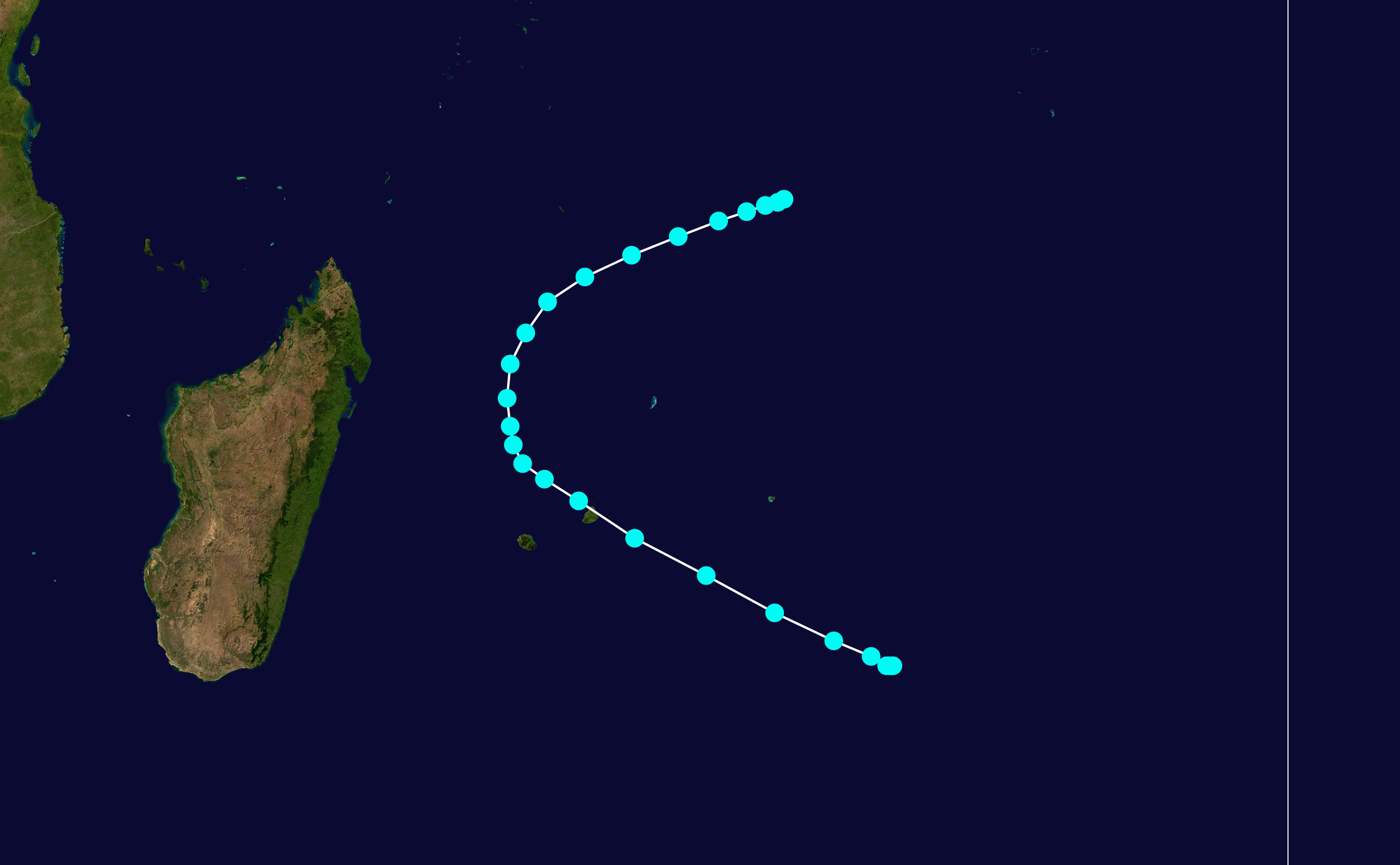 Track map of Tropical Cyclone Seven of the 1891–92 South-West Indian Ocean cyclone season. The points show the location of the storm at 6-hour intervals. The colour represents the storm's maximum sustained wind speeds as classified in the Saffir–Simpson scale (see below), and the shape of the data points represent the nature of the storm, according to the legend below. Saffir–Simpson scale Tropical depression≤38 mph≤62 km/h Category 3111–129 mph178–208 km/h Tropical storm39–73 mph63–118 km/h Category 4130–156 mph209–251 km/h Category 174–95 mph119–153 km/h Category 5≥157 mph≥252 km/h Category 296–110 mph154–177 km/h Unknown Storm type Tropical cyclone Subtropical cyclone Extratropical cyclone / Remnant low / Tropical disturbance